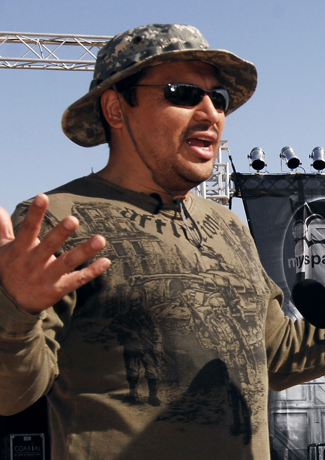 Carlos Mencia prior to a live concert at a U.S. Army camp in the Persian Gulf Region on March 9, 2008 Original caption: Tech. Sgt. Tara O'Brien interviews world renowned comedian Carlos Mencia prior to a live concert March 9 at a U.S. Army camp in the Persian Gulf Region. MySpace, in cooperation with Department of Defense's Armed Forces Entertainment and America Supports You program, brought Operation MySpace to servicemembers headed into and out of Afghanistan and Iraq. This landmark concert, with entertainment acts from Disturbed, Filter, Pussycat Dolls, disc jockey Z-Trip, and host Carlos Mencia, provided a taste of home via the wonder of live music to troops supporting operations Enduring Freedom and Iraqi Freedom. Sergeant O'Brien is a Broadcast Journalist for the Combined Air Operations Center and is deployed from Aviano Air Base, Italy. (U.S. Air Force photo/Staff Sgt. Patrick Dixon)